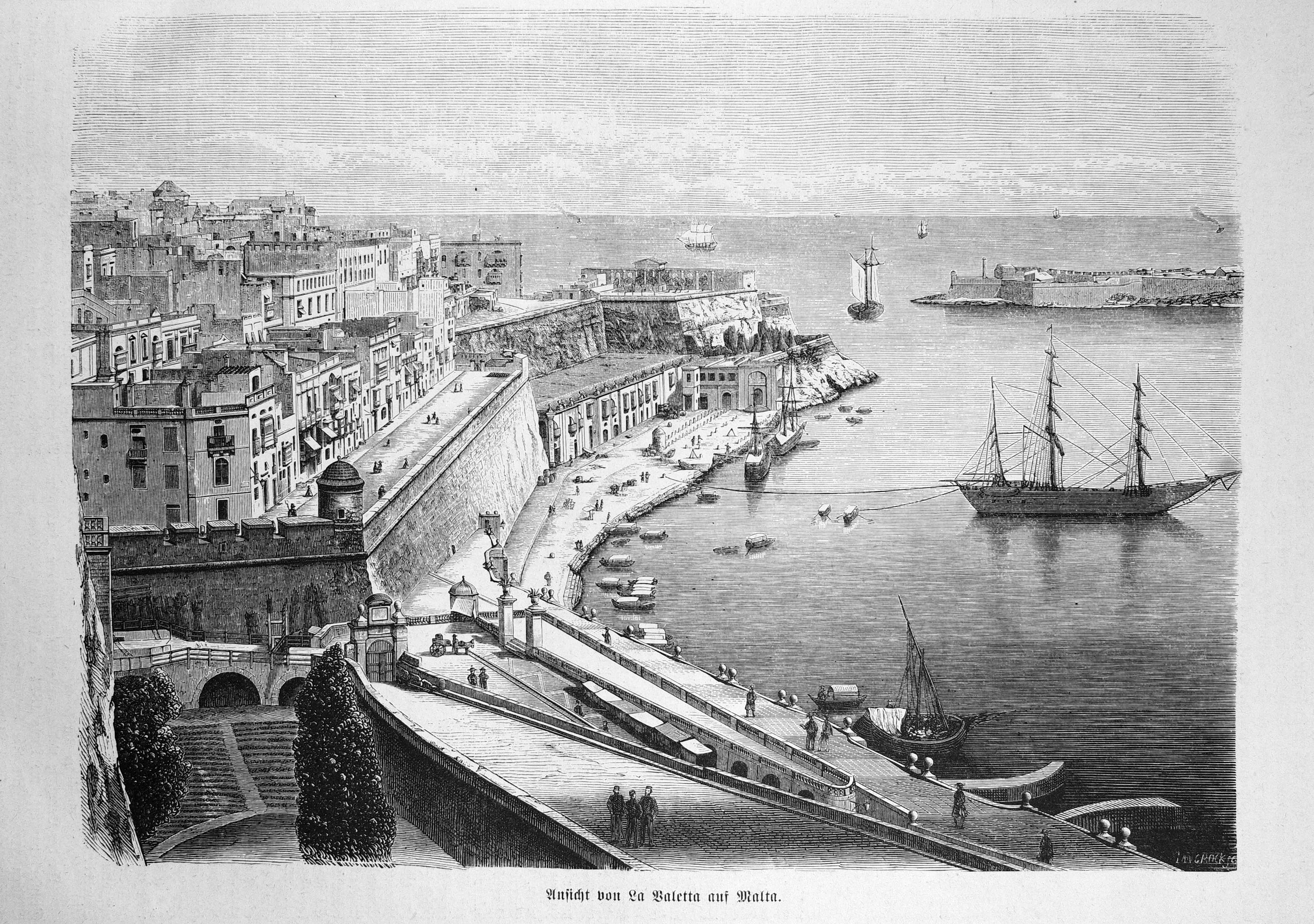 caption: "Ansicht von La Valetta auf Malta."